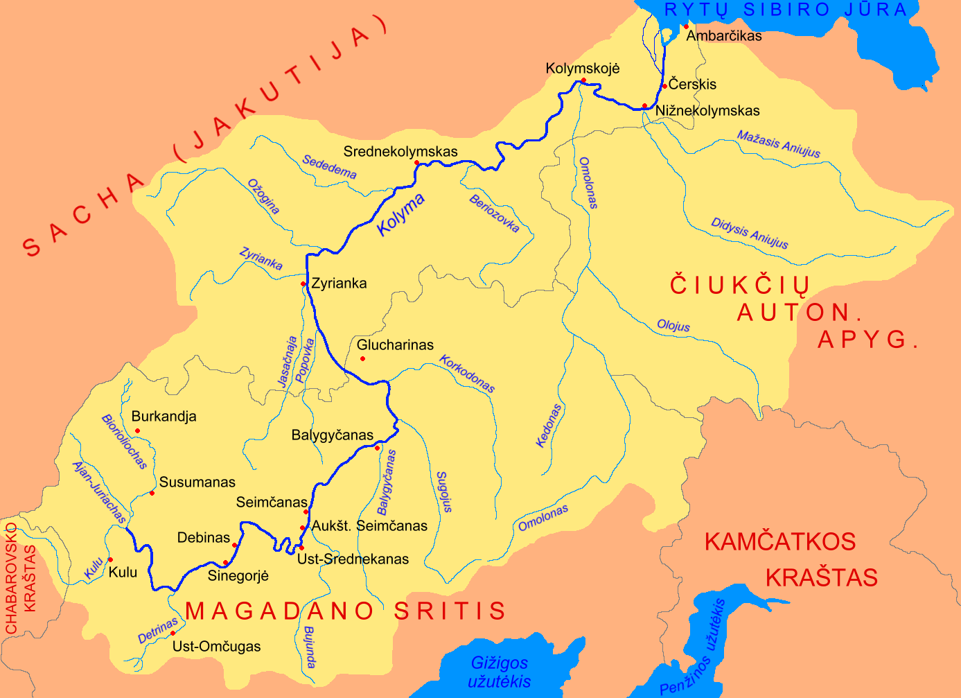 Kolyma River Basin (Lithuanian version). Derivative work of Файл:Kolyma.png, originally uploaded on Russian Wikipedia by СафроновАВ.